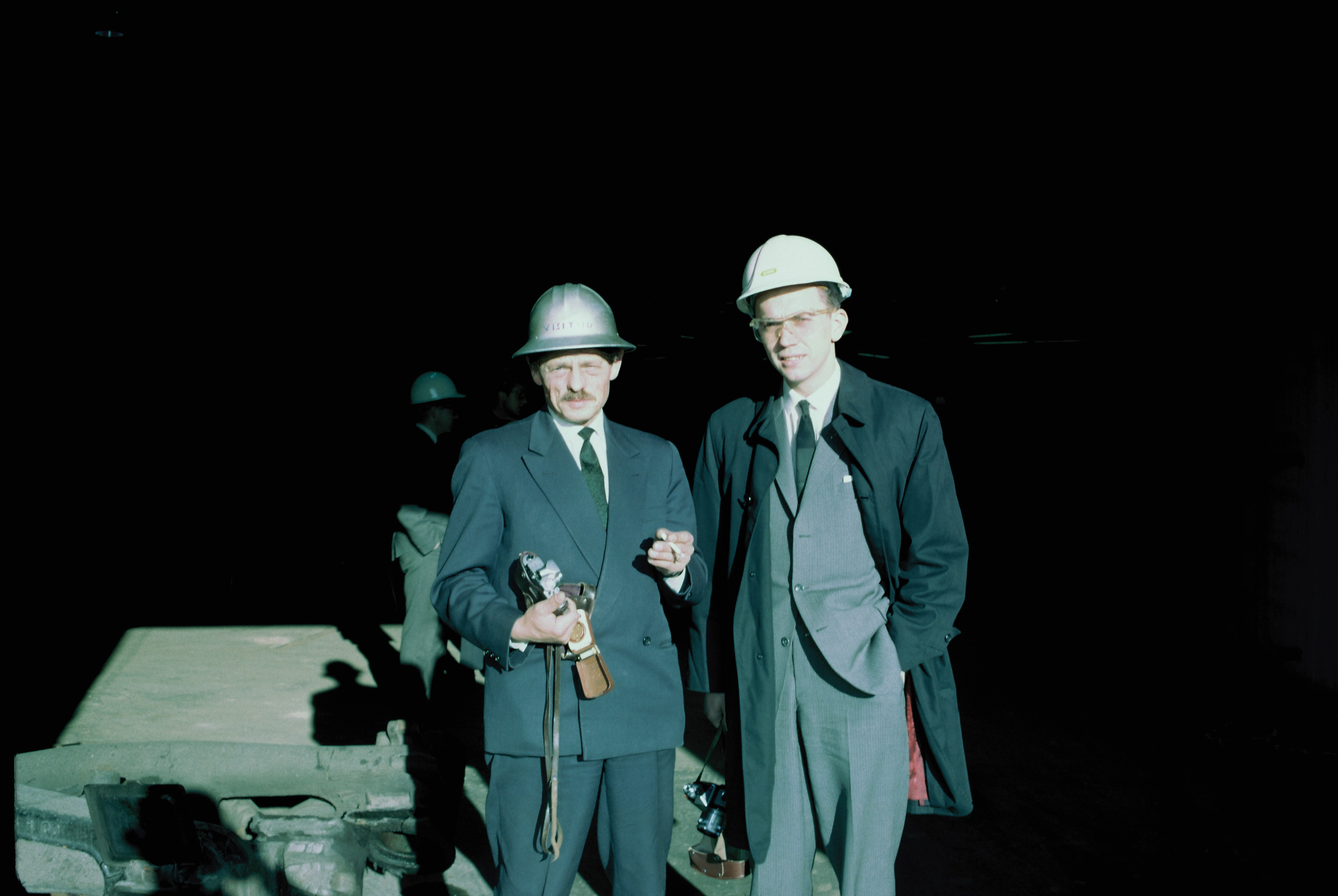 Gojko Varda and Niko Kralj in USA, 1963